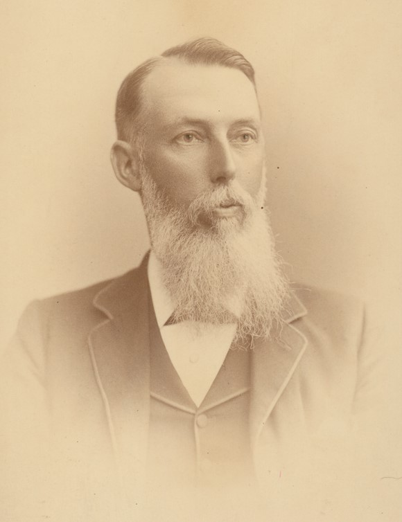 Portrait of Edward Rennie.